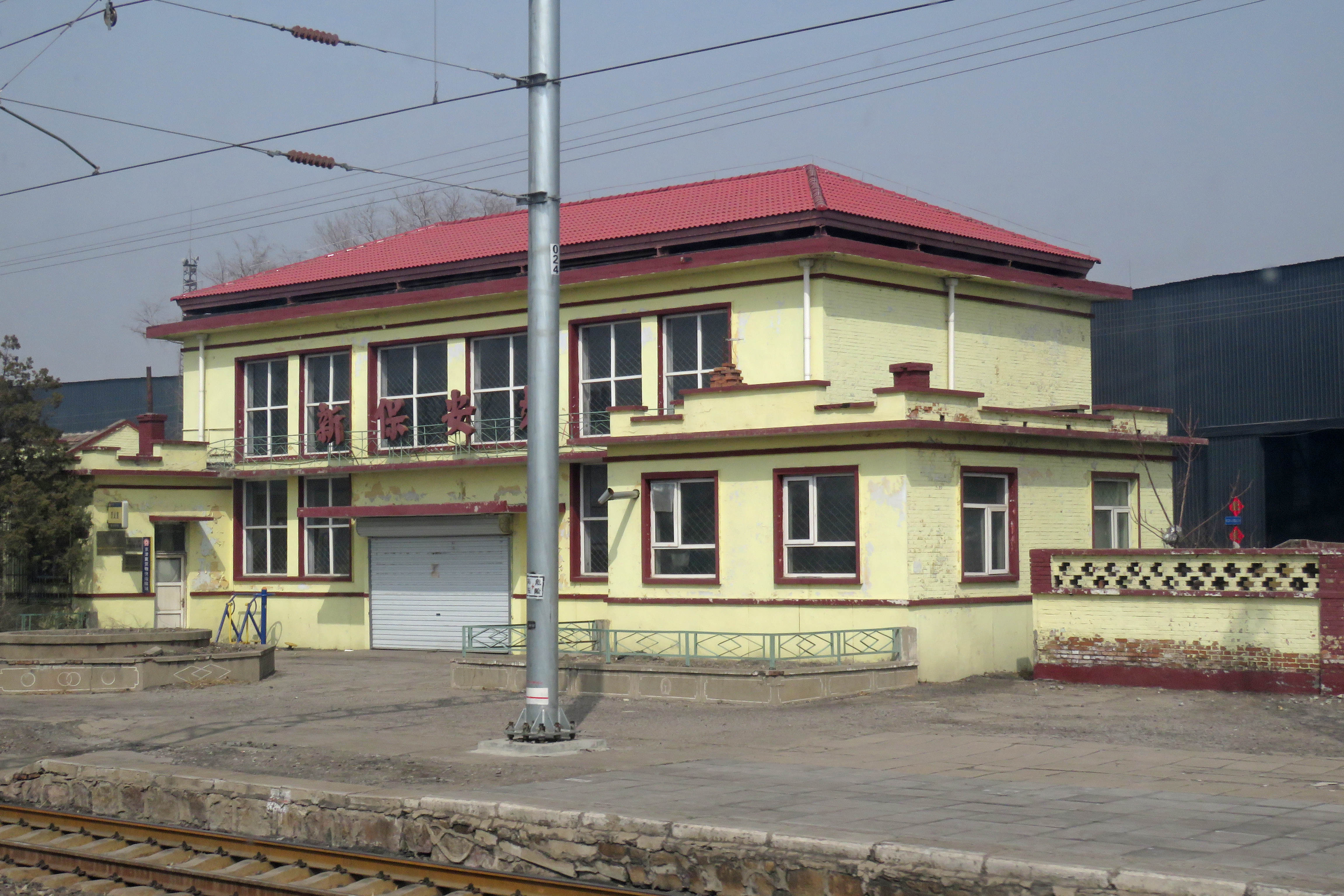 New SZX? Of course not here.